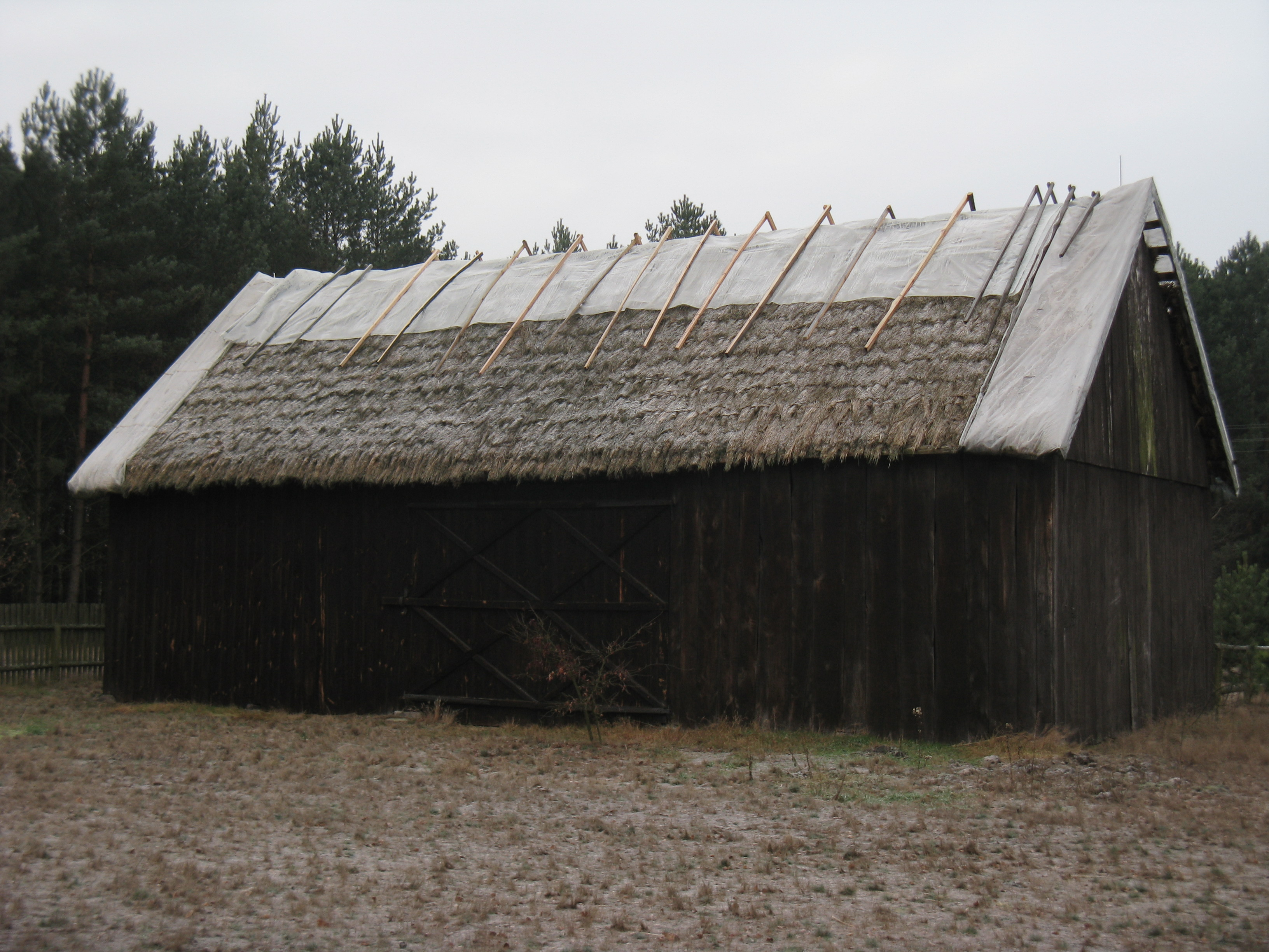 open air museum in Granica